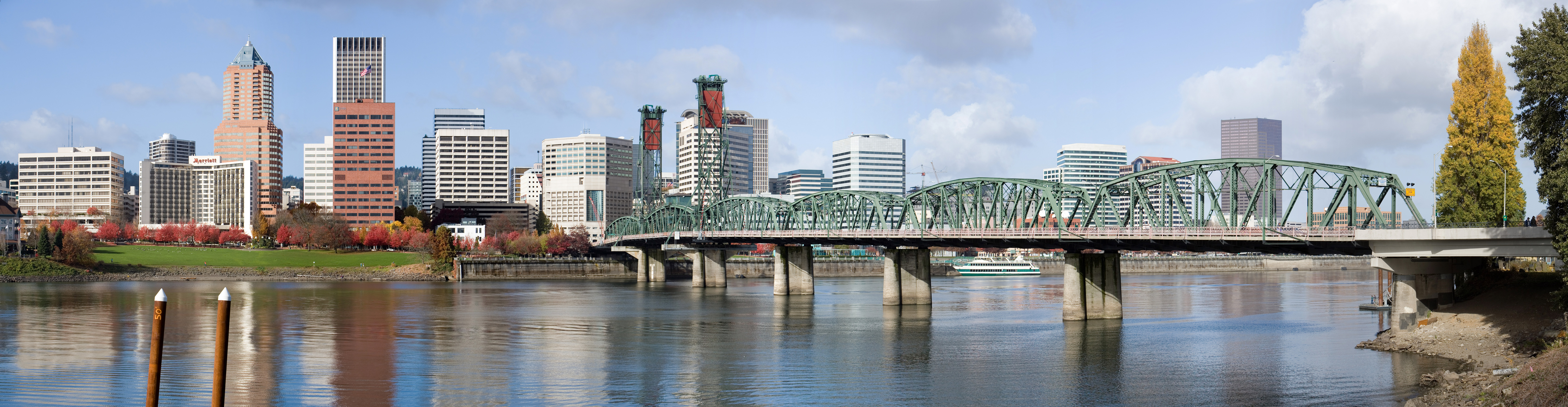 The Hawthorne Bridge in Portland, seen from the southeast side of the bridge. This is a 7x1 panoramic stich.